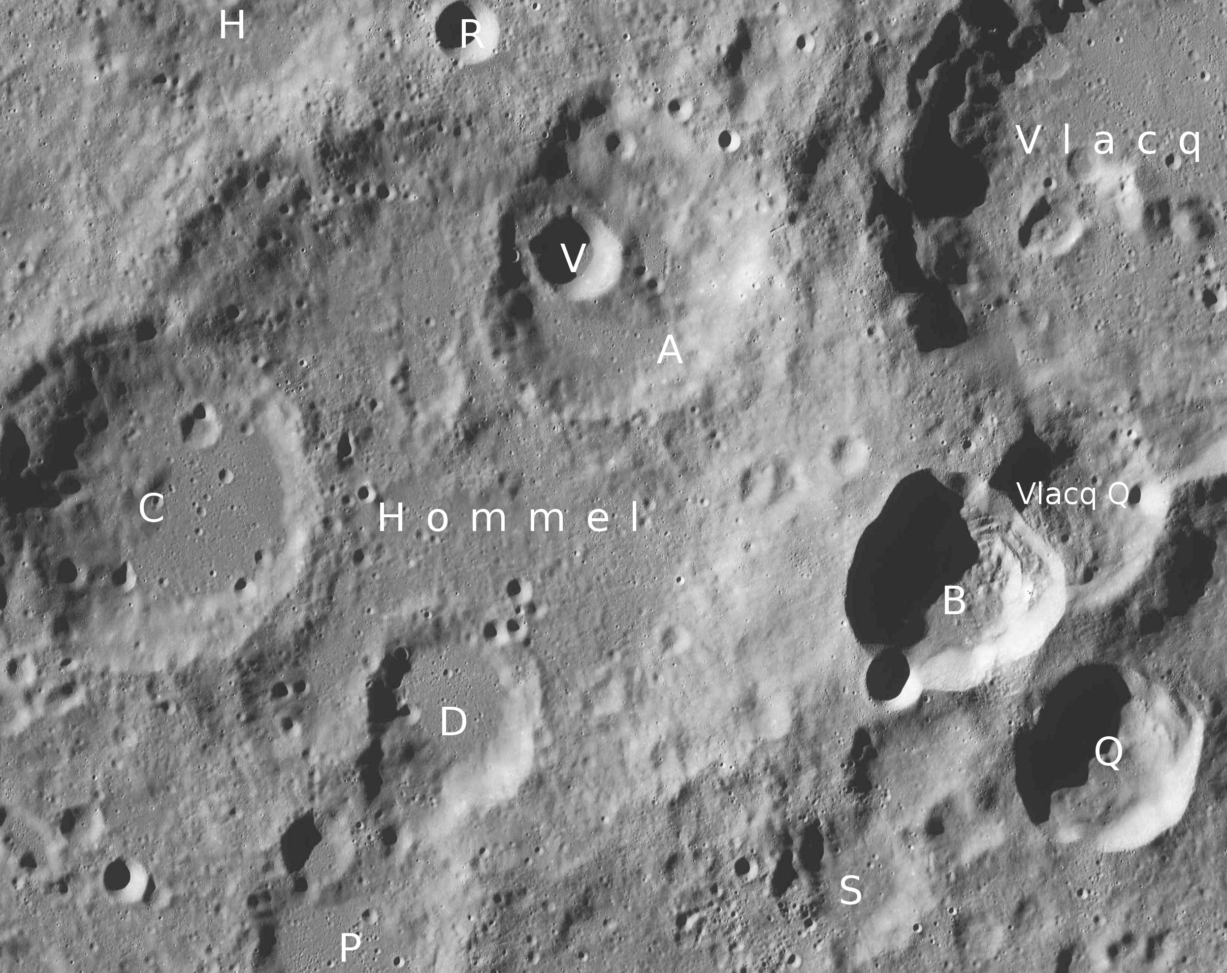 Crater Hommel with satellite features (detail of LRO - WAC global moon mosaic; Mercator projection)